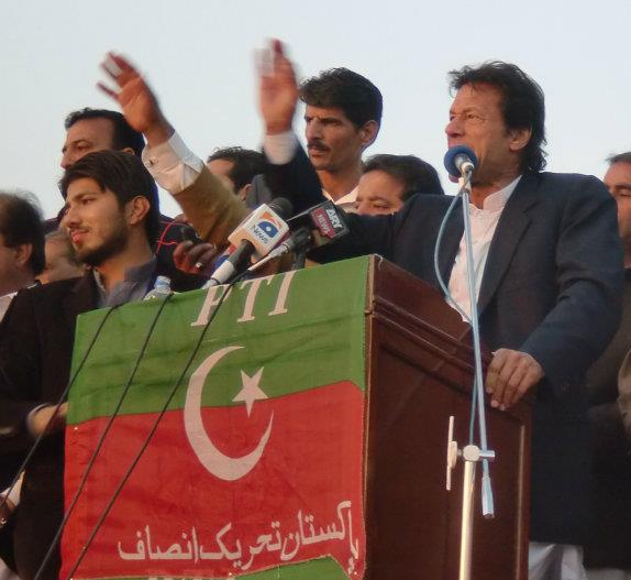 Imran Khan addressing tarbela Dam affected Pakistanis in Ghazi in 2011